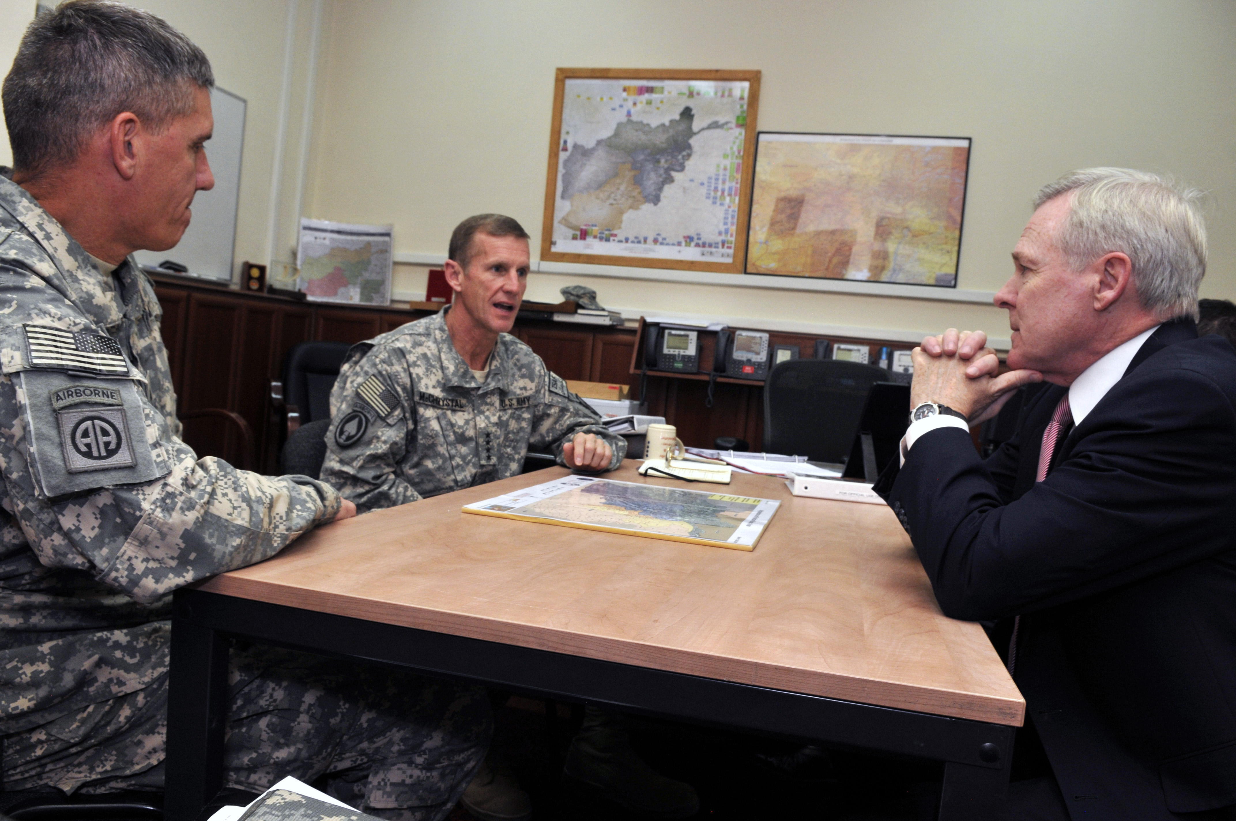 KABUL, Afghanistan (Aug. 9, 2009) Secretary of the Navy (SECNAV) the Honorable Ray Mabus, right, meets with Gen. Stanley McChrystal, center, Commander International Security Assistance Force Afghanistan (ISAF) and Lt. Gen. David Rodriguez at ISAF headquarters. (U.S. Navy photo by Mass Communication Specialist 2nd Class Kevin S. O'Brien/Released)